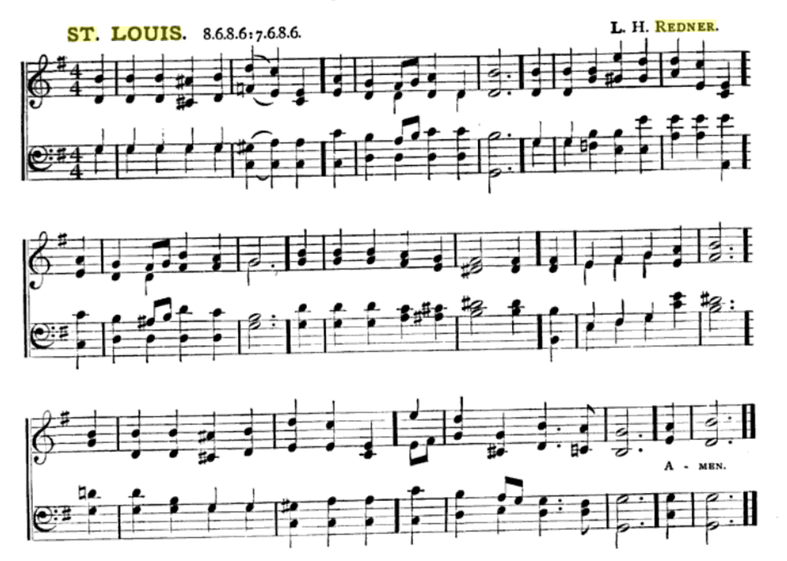 St Louis, hymn tune for "O Little Town of Bethlehem", composed by L. Redner